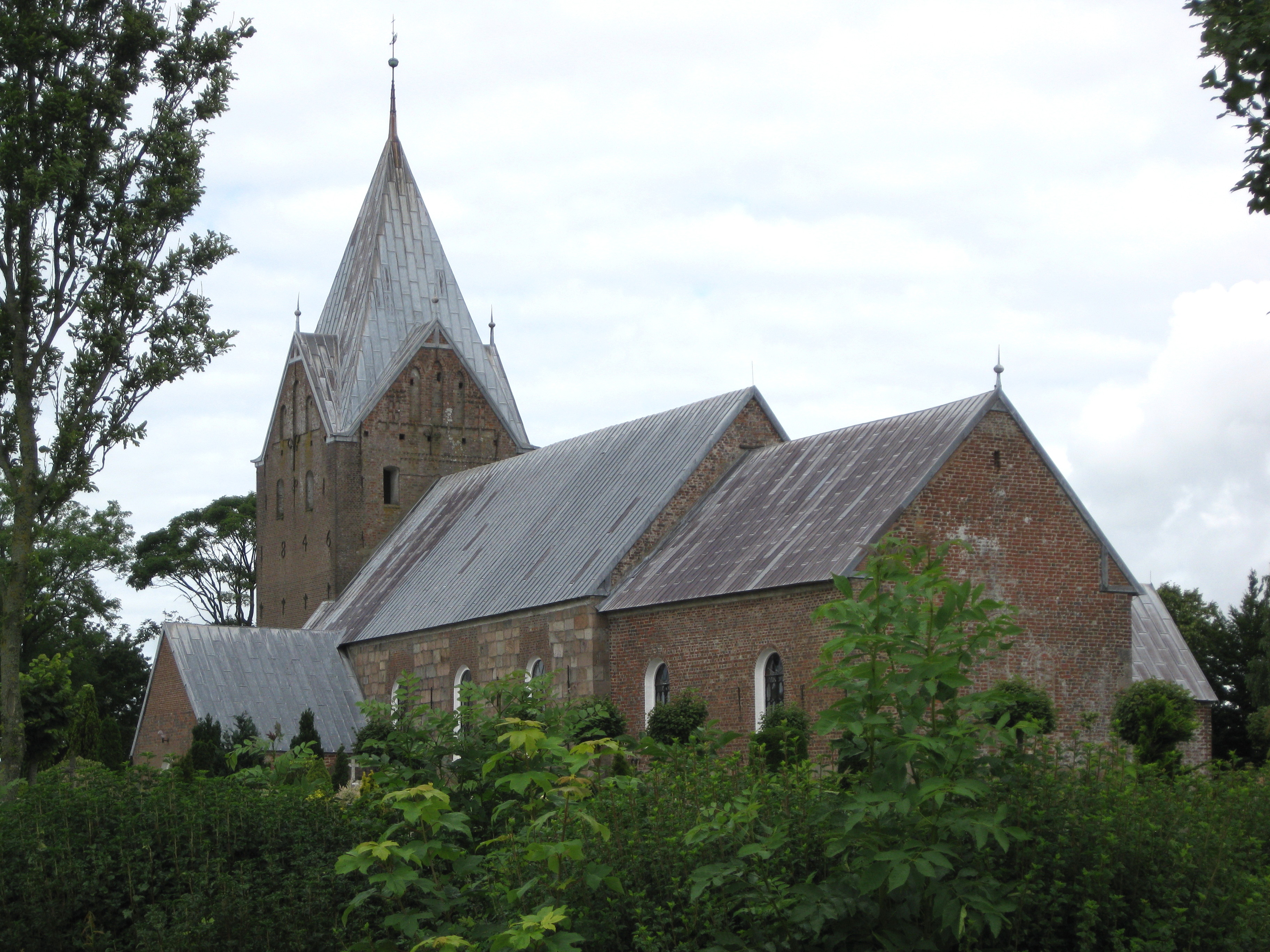 The church "Agerskov Kirke" in the small town "Agerskov". The town is located in Southern Jutland in south Denmark.